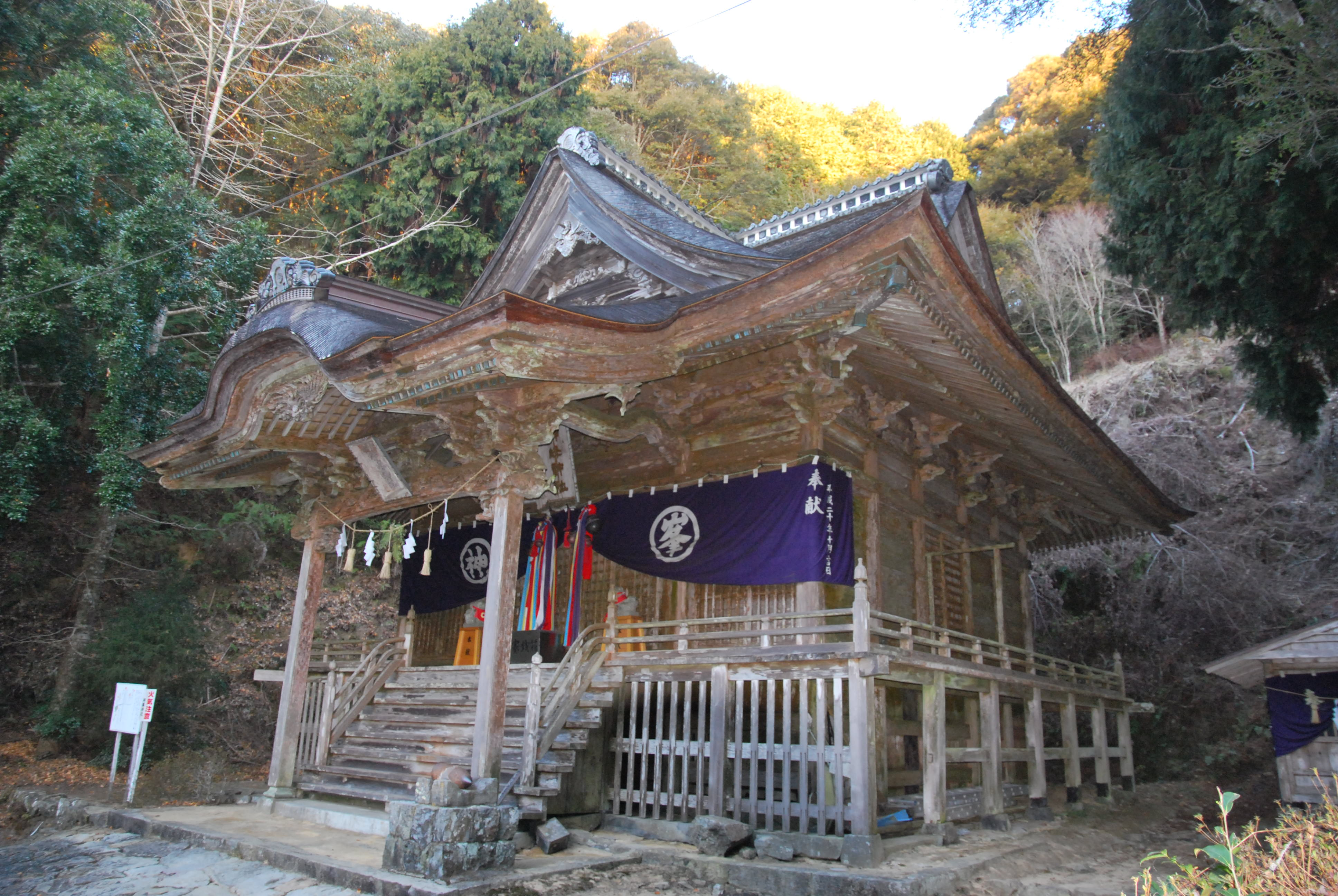 Main shrine, Kounomine jinja